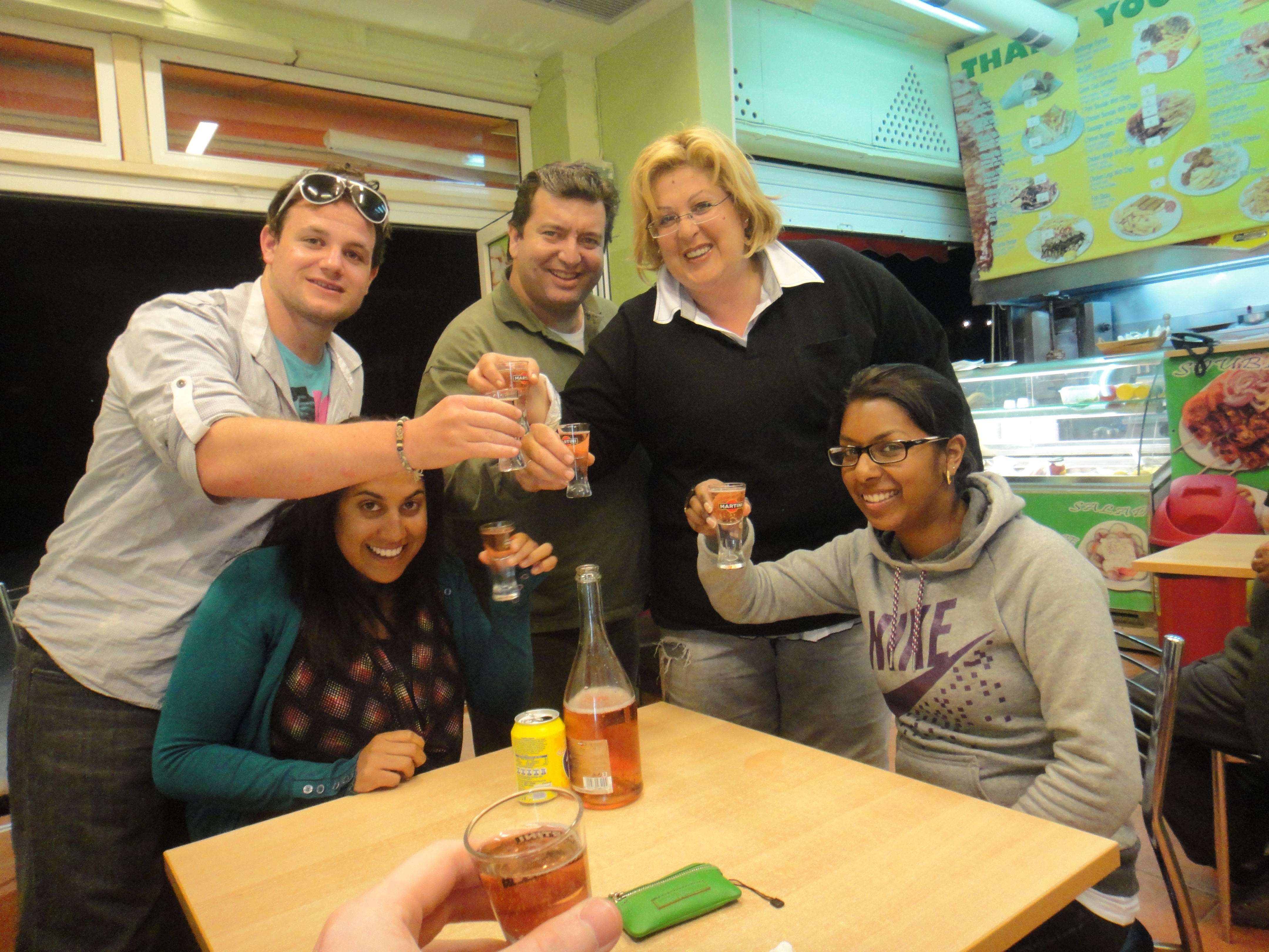 Stalida Tsikoudia